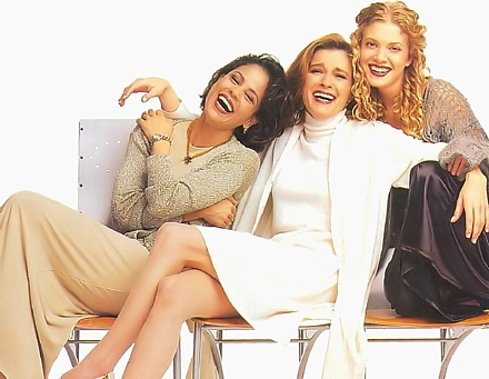 Group image of Roxann Dawson, Kate Mulgrew and Jennifer Lien taken by EJ Camp in 1995. Cropped low resolution version of photo taken by EJ Camp which first appeared on page 25 of an article by Diane Werts titled ‘The Bold and the Beautiful’ (TV Guide Collector's Edition, Star Trek: Four Generations, pp. 22-25, Spring 1995).